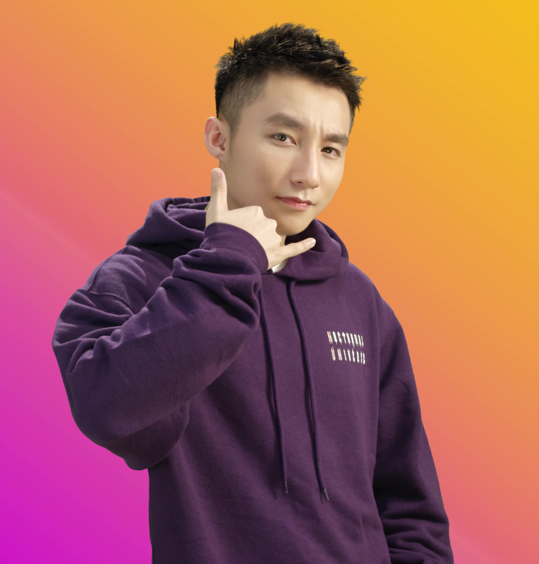 Vietnamese singer Sơn Tùng M-TP in a promotional video for Viettel.